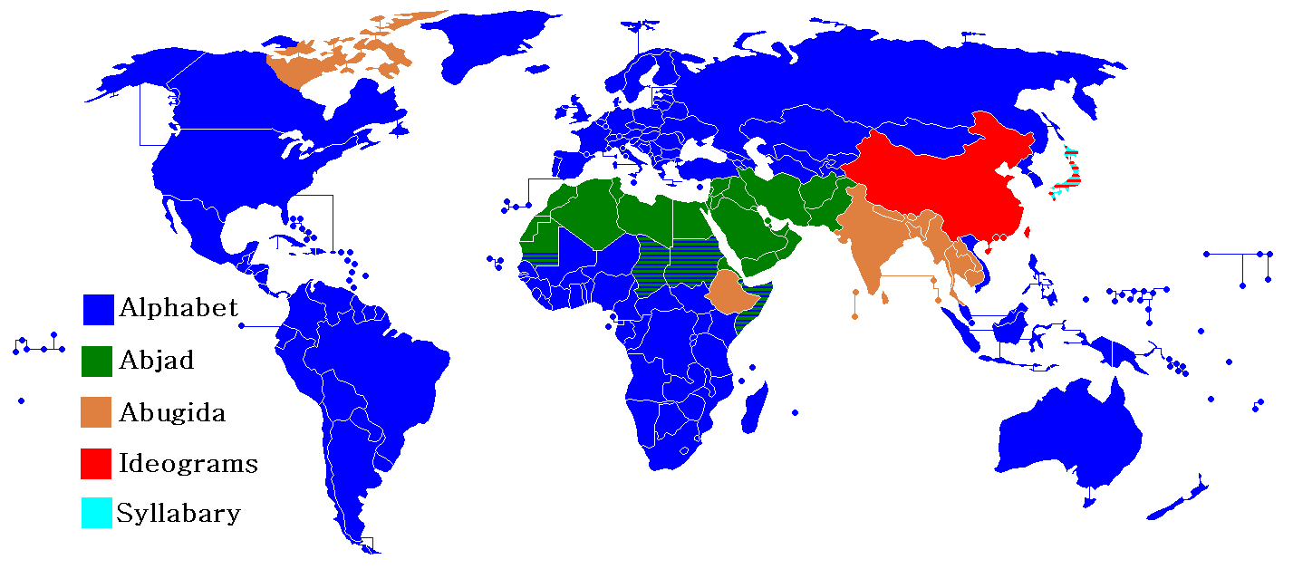 A political world map showing the predominant form of writing systems in each country.